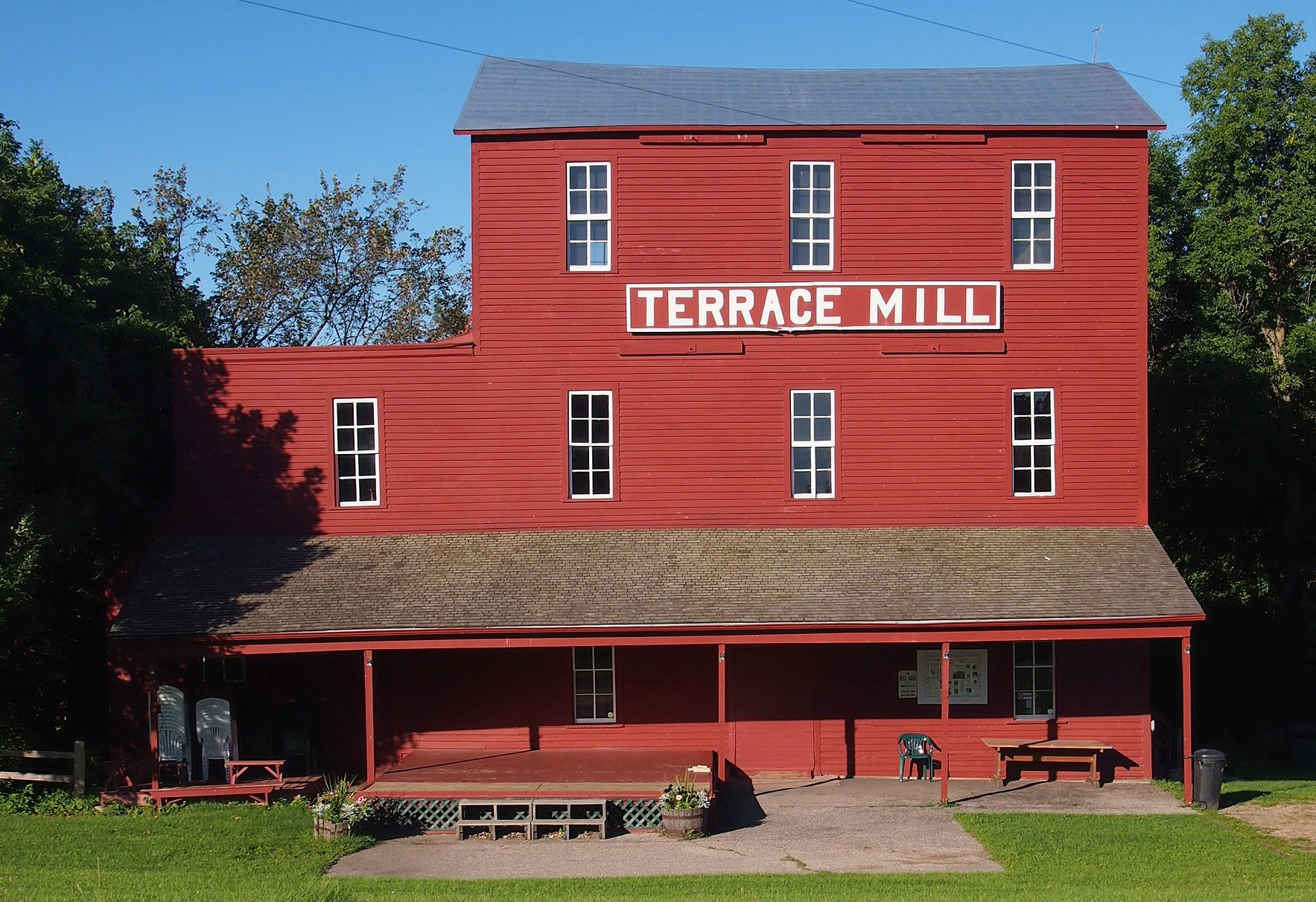 Terrace Mill, Terrace, Minnesota, USA. Viewed from the east-northeast. A contributing property to the Terrace Mill Historic District.